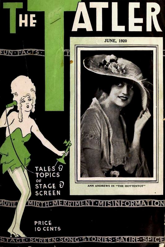 American actress Ann Andrews on the cover of the June 1920 The Tatler for the stage production The Hottentot, which played at the George M. Cohan's Theatre in 1920.